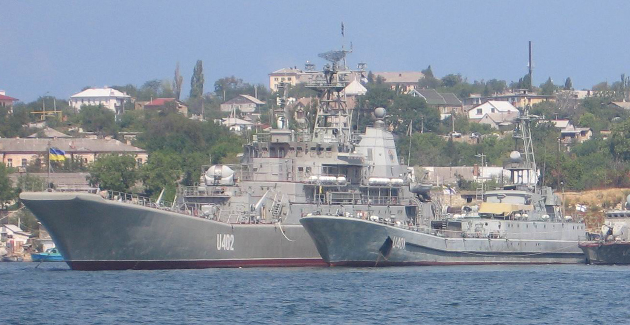 Ukrainian project 773 midium landing ship U401 Kirovohrad (ex-Soviet DSK-137) and project 775 large landing ship U402 Kostiantyn Ol'shans'kyi (ex-Soviet Konstantin Ol'shanskiy) in Sevastopol.